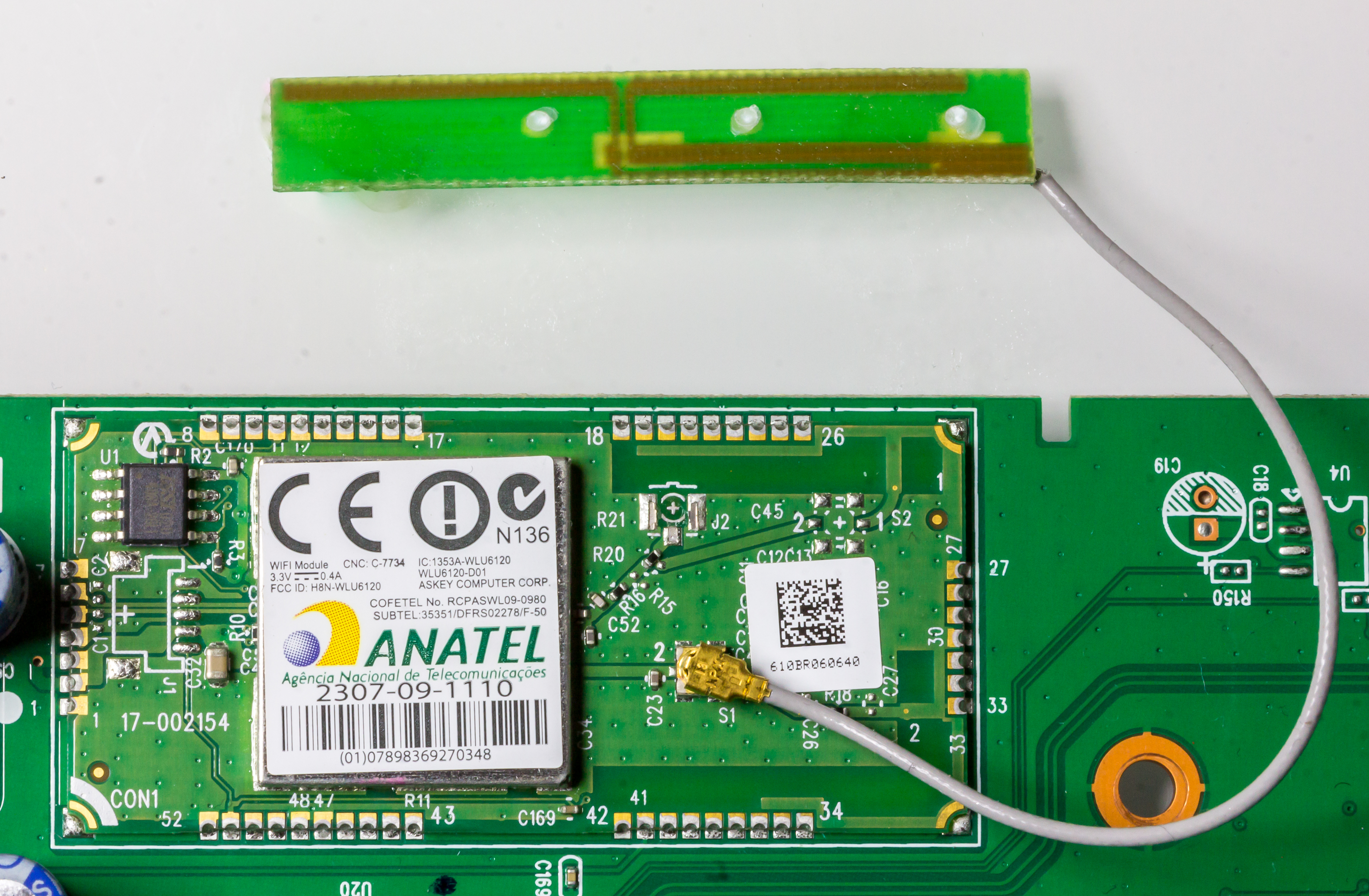 Wi-Fi network card on a mainboard of a Kodak printer/scanner, made by Askey Computers with a Wi-Fi Internal PCB Antenna with Coax Cable, made by Amphenol. The module has as CE marking and permissions by Agência Nacional de Telecomunicações (Anatel), and Comisión Federal de Telecomunicaciones (Cofetel)